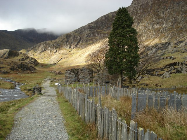 Plascwmllan and the Gladstone Rock On the Watkin path to Snowdon these ruins have a lovely slate fence. In the distance is the Gladstone rock which is in the next grid-square.